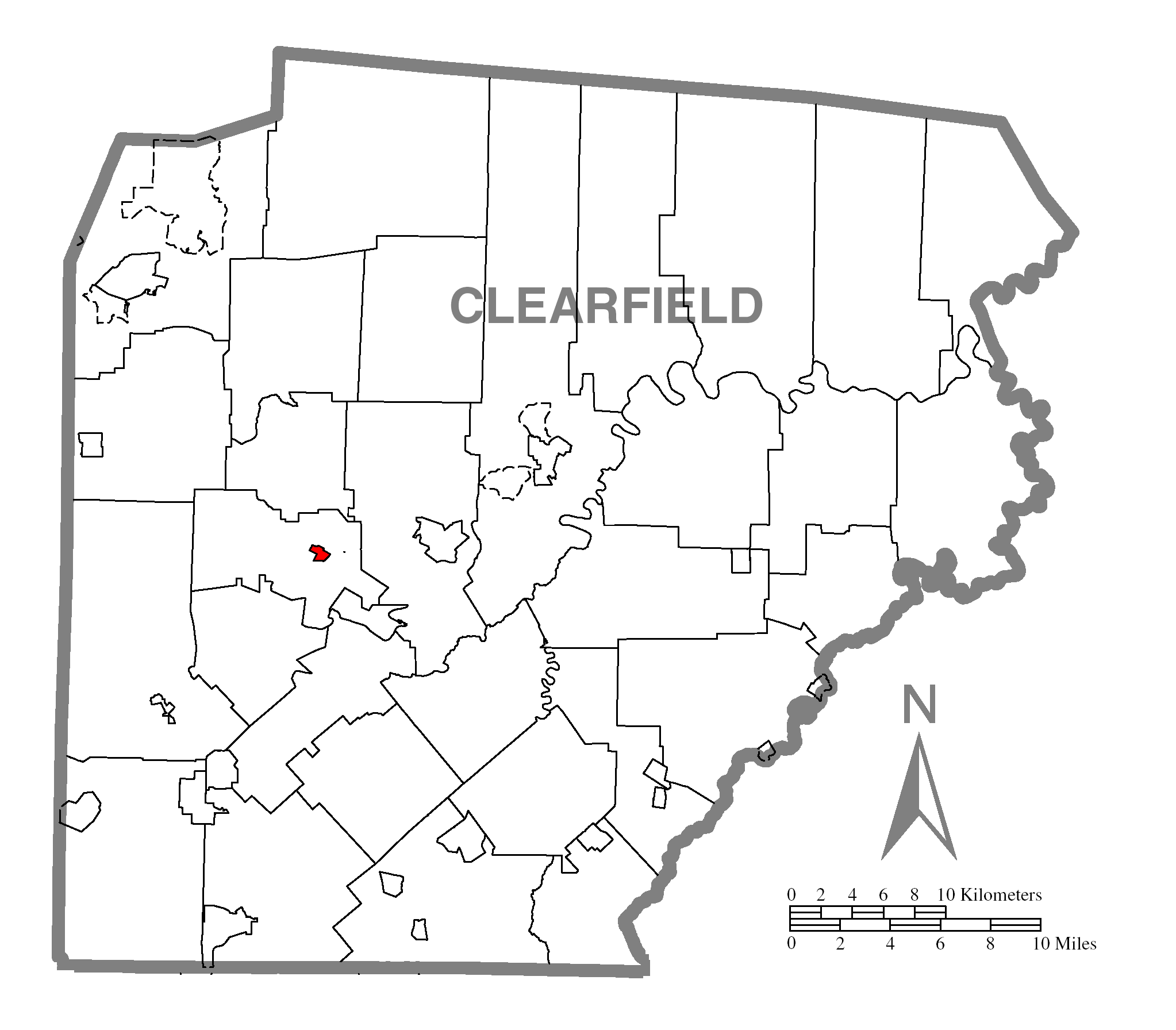 A map of Clearfield County showing Grampian, Pennsylvania (alternate) highlighted on the map.